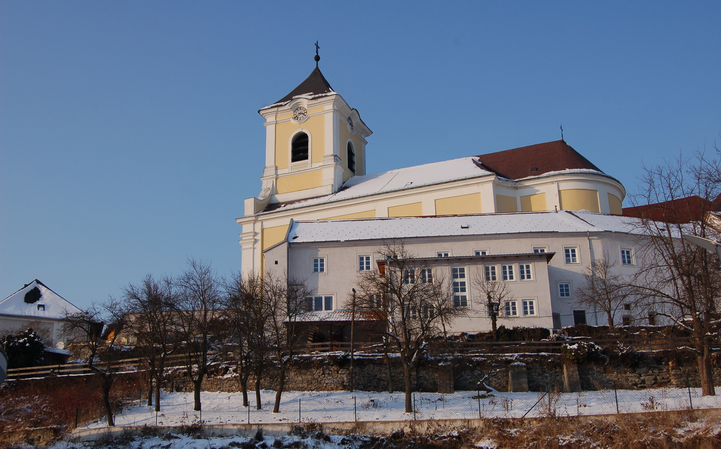 The rectory of Kirchberg am Wechsel, Lower Austria (located alongside St. Jacob parish church).